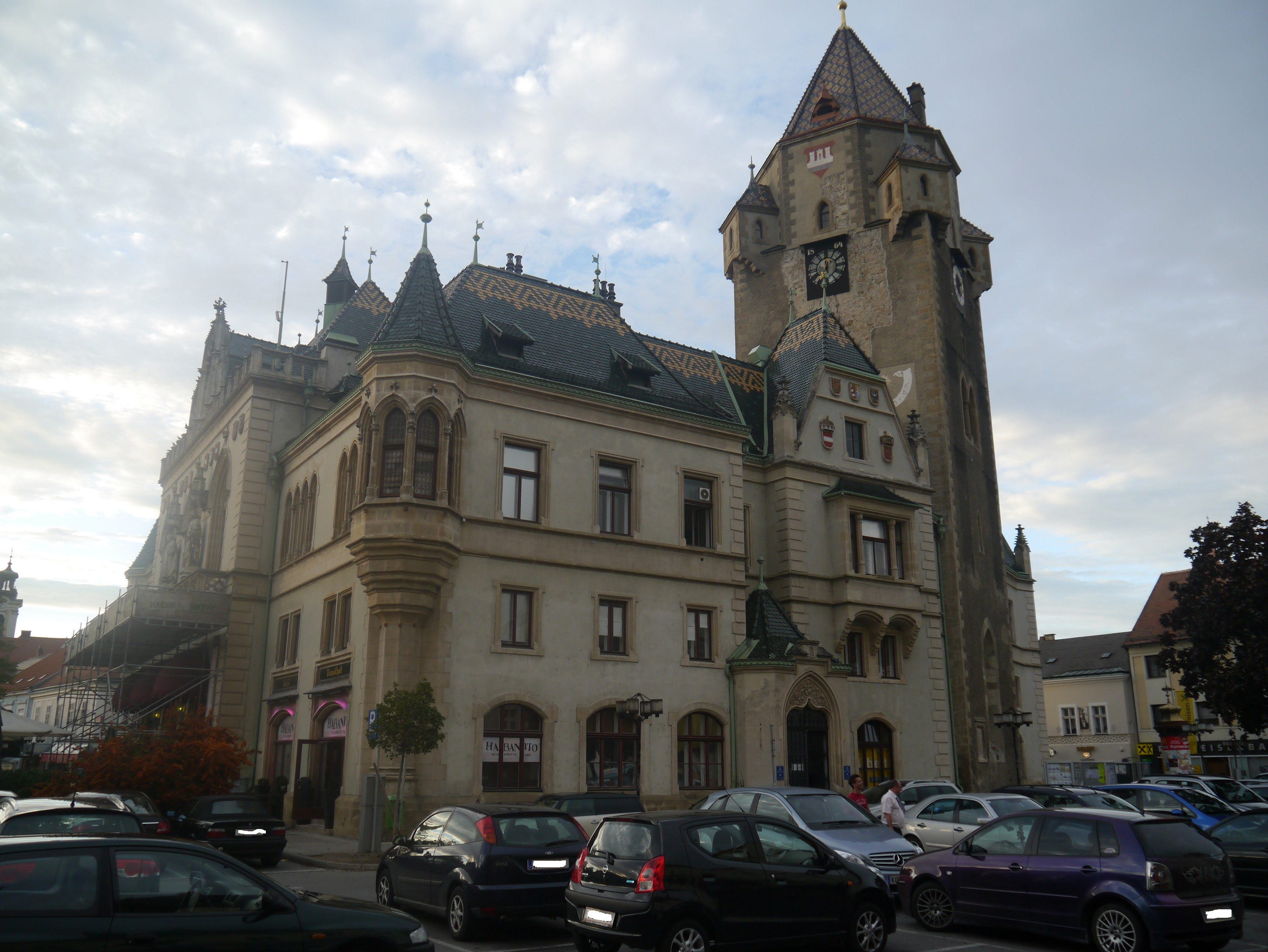 Town hall, Korneuburg